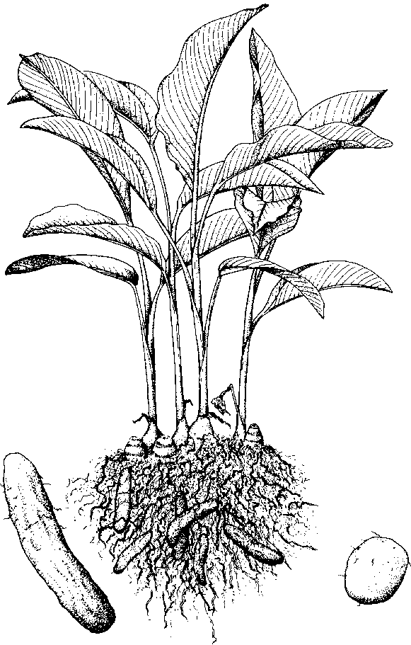 A drawing of leren or Calathea allouia